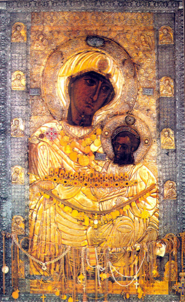 The Icon